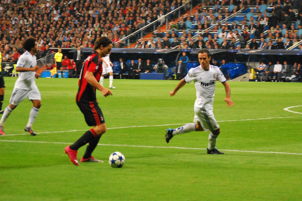 Zlatan Ibrahimović and Ricardo Carvalho during Real Madrid CF-AC Milan, 2010–11 UEFA Champions League